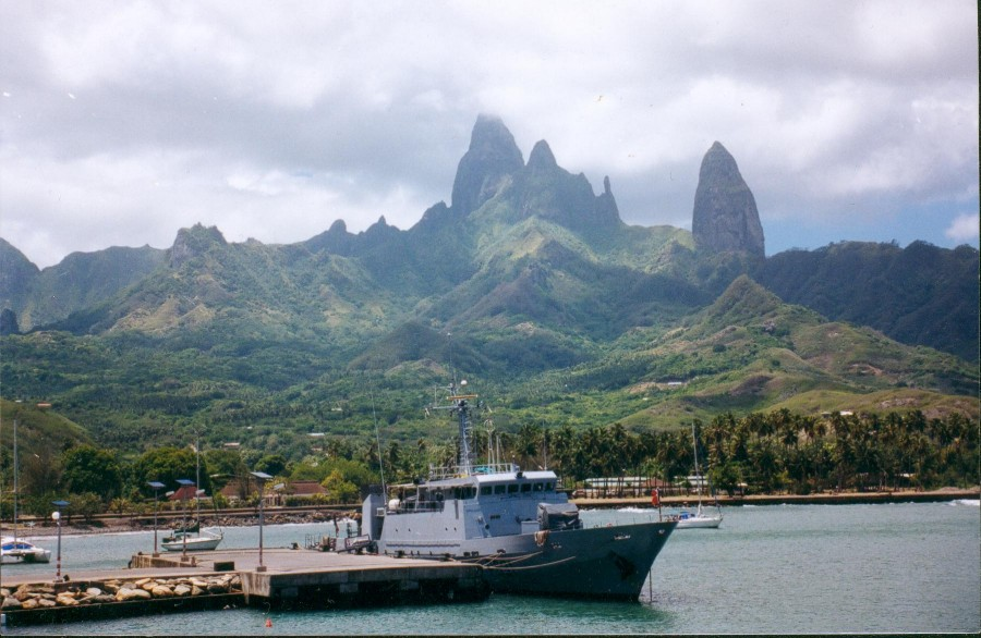 French Navy Ship La Tapageuse, alongside the quay of Hakahau, Ua Pu, Marquesas Islands